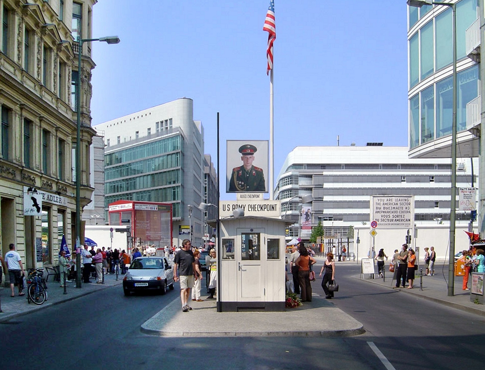 Memorial Site: Checkpoint Charlie (rebuild) in Berlin, 2005.